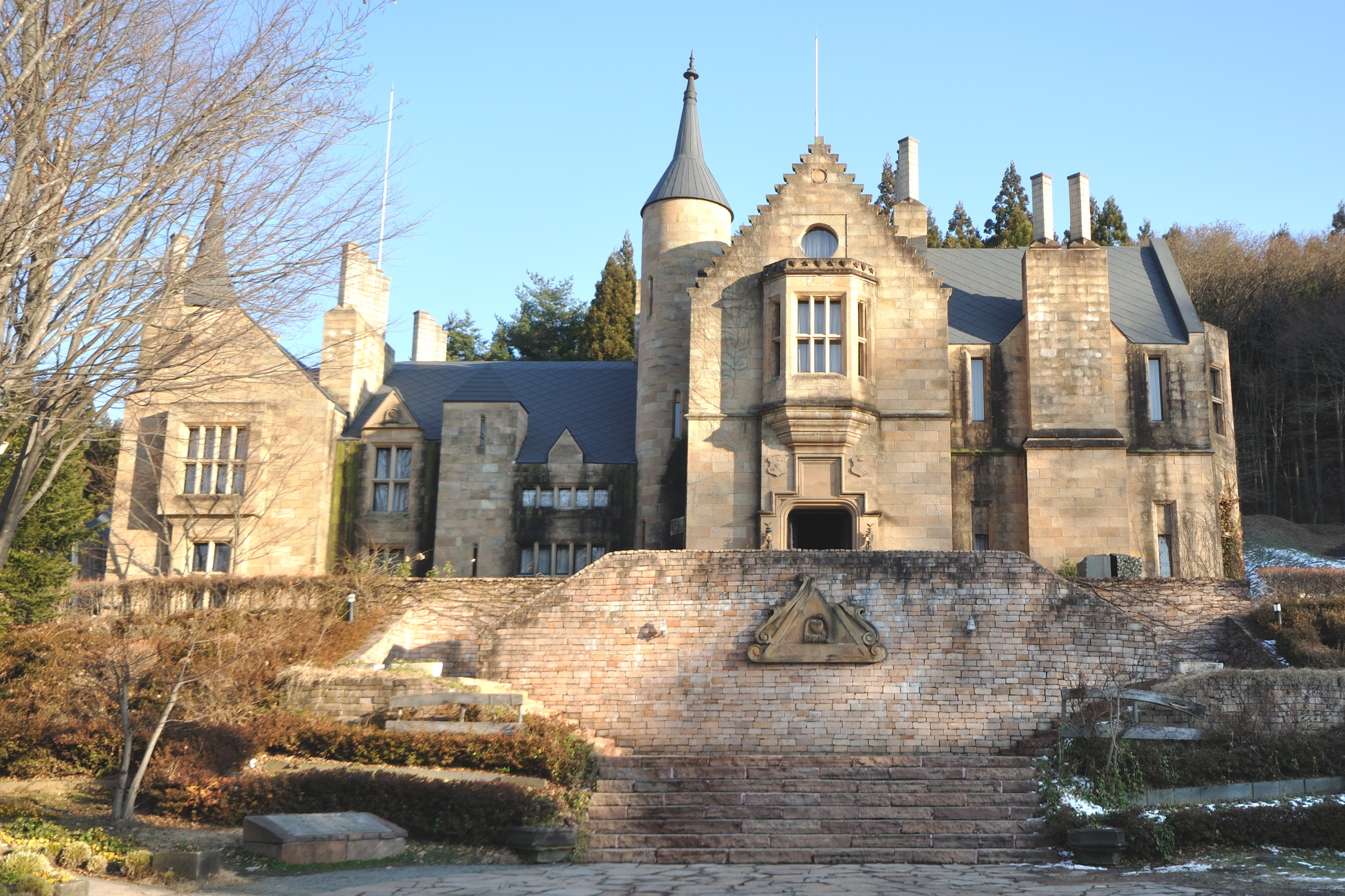 Photograph of Lockheart Castle exterior and steps by amusement park "Marble Village Lockheart Castle" in Takayama Village, Gunma Prefecture, old name of this castle is "Milton Lockhart House", was constructed in Scotland of 1829, dismantled in 1987 and rebuild in Japan of 1993 as "Lockheart Castle".